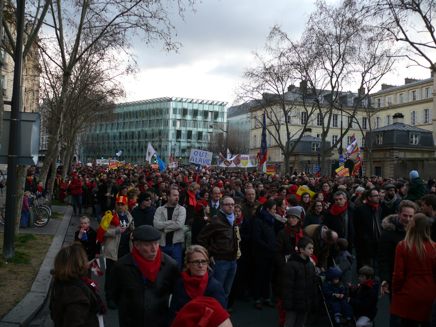 March for Life 2014 in Paris (France).